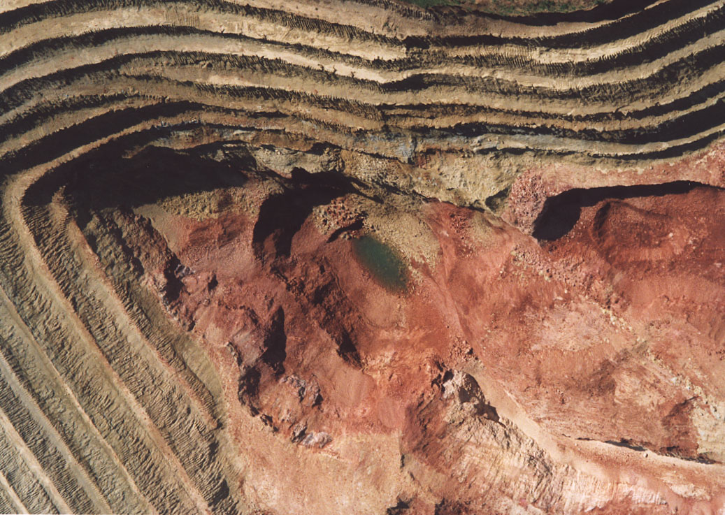 Work aboveground - Mine - Gánt - Hungary - Europe